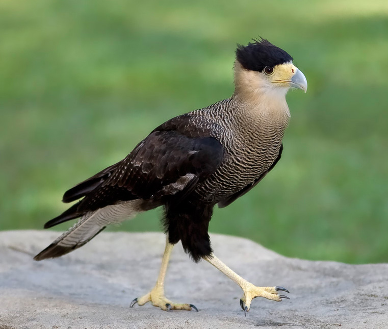 Sub-adult Southern Caracara (Caracara plancus), captive, Jurong Bird Park, Singapore